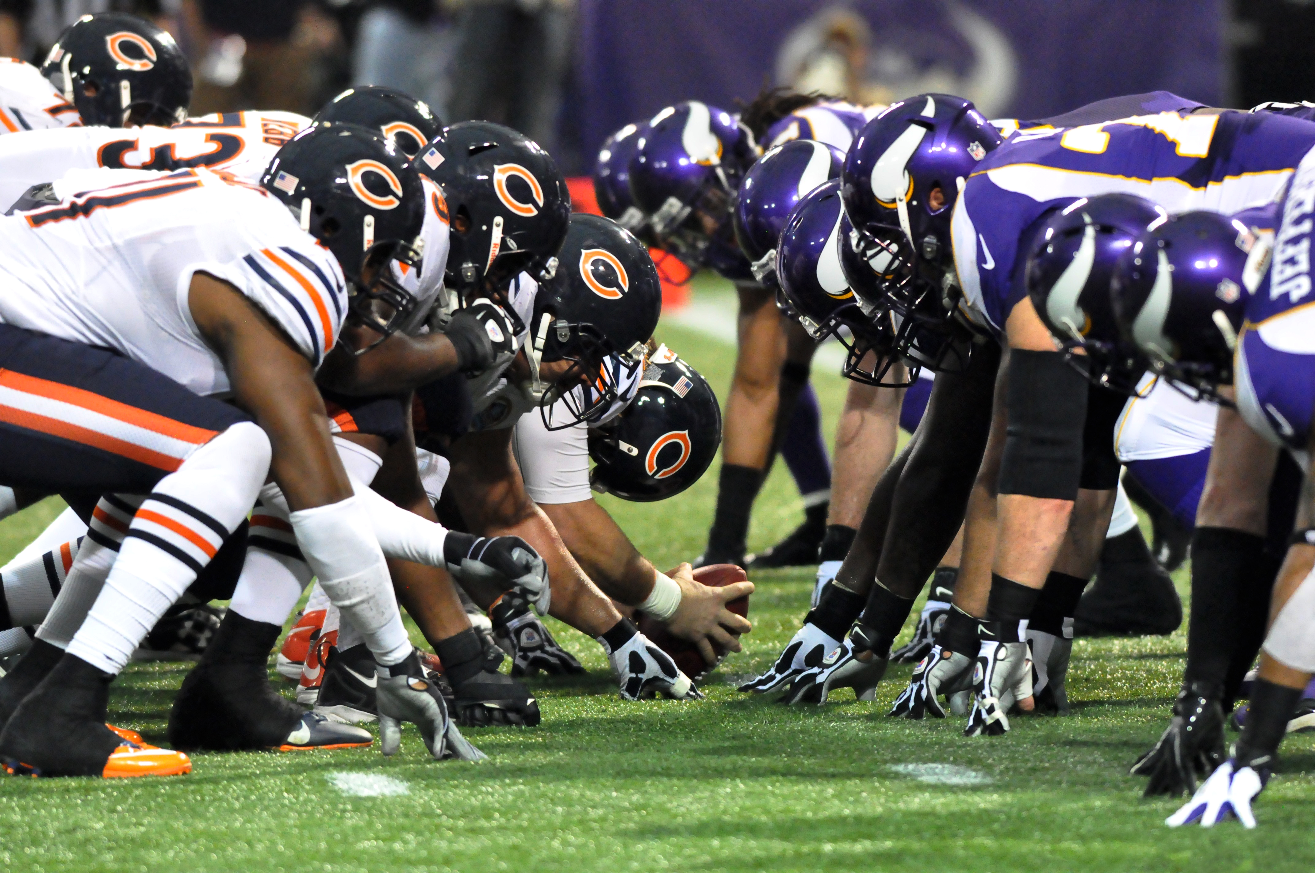 Chicago at Minnesota, 09-12-2012